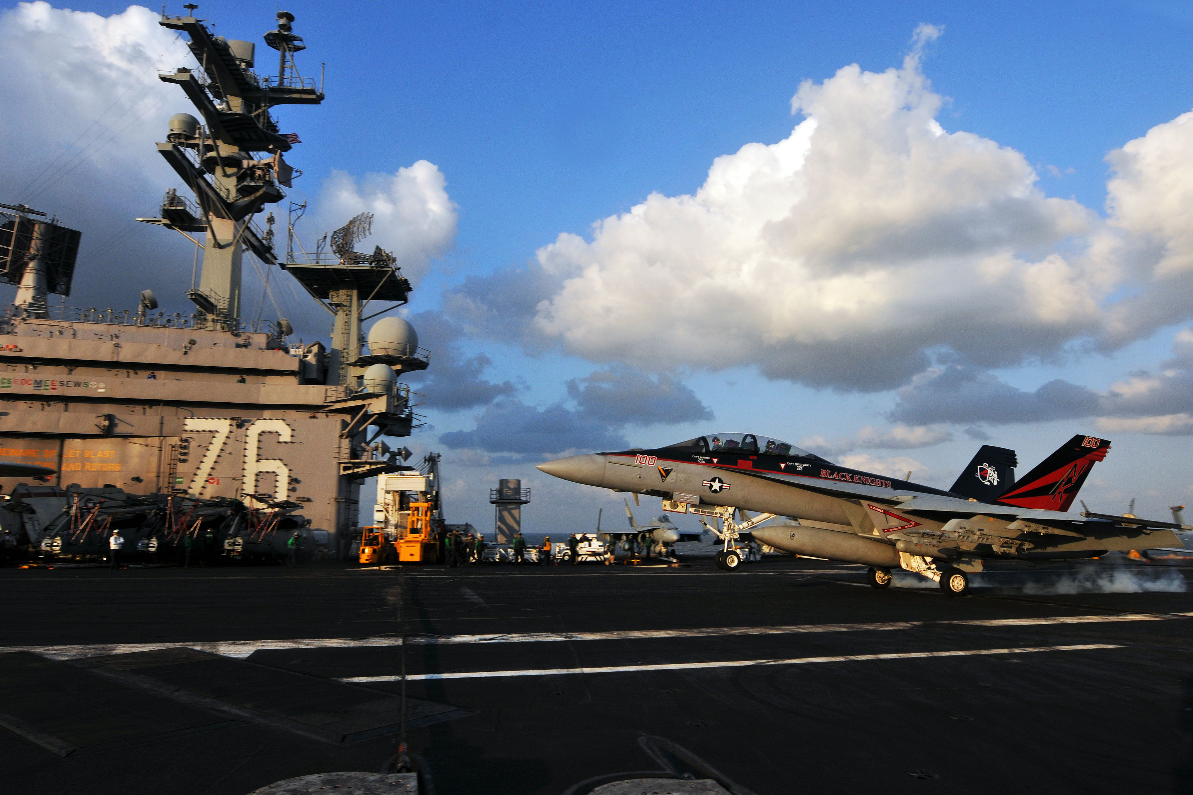 PACIFIC OCEAN (April 18, 2011) Capt. Capt. Kevin Mannix, deputy commander of Carrier Air Wing (CVW) 14, lands an F/A-18 Hornet aboard the aircraft carrier USS Ronald Reagan (CVN 76) to complete his 1,000th arrested carrier landing. Ronald Reagan is operating in the western Pacific Ocean. (U.S. Navy photo by Mass Communication Specialist 3rd Class Shawn Stewart/Released)